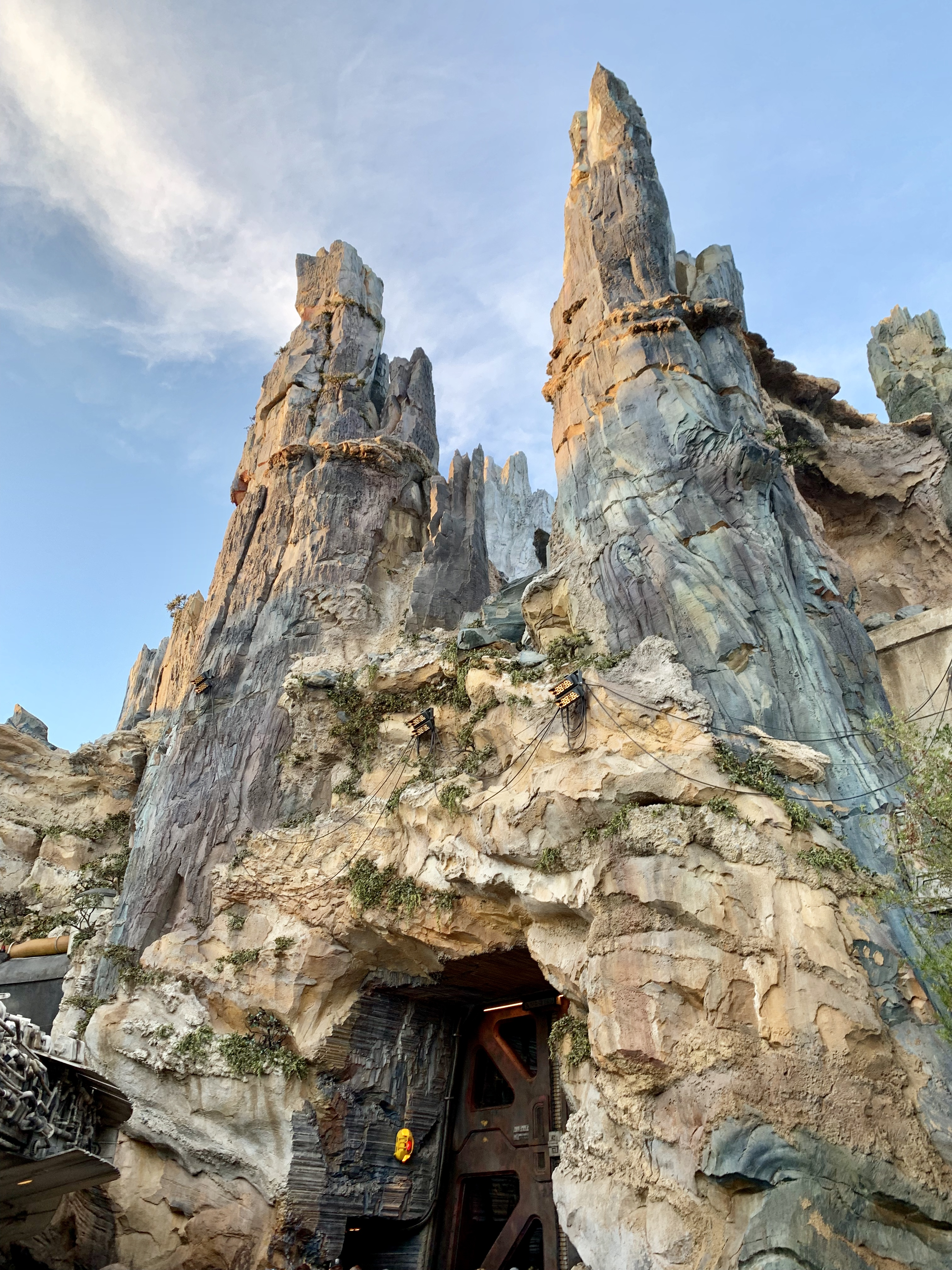 Black Spire rockwork at Disney's Hollywood Studios.